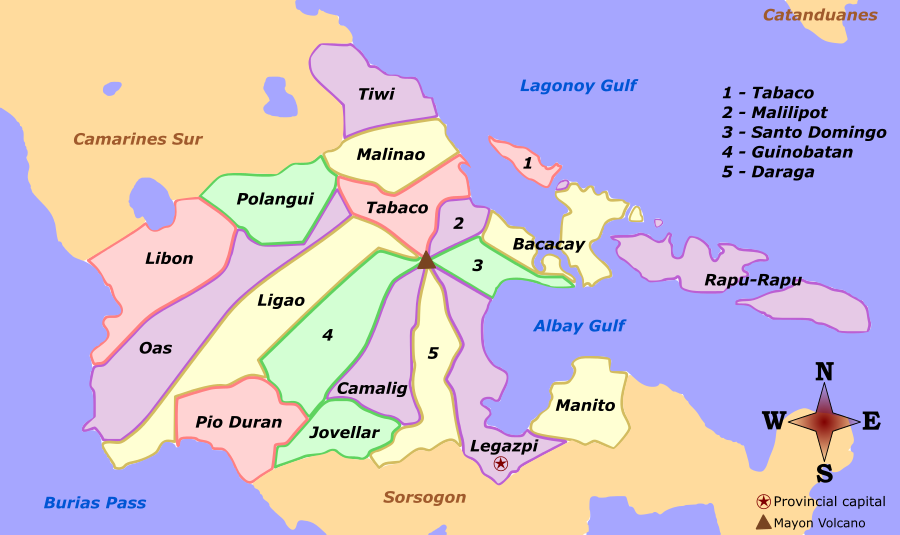 Labelled colored map of the province of Albay, showing its component cities and municipalities.